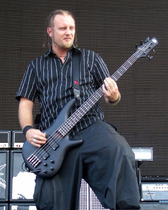 Marco_Coti_Zelati.